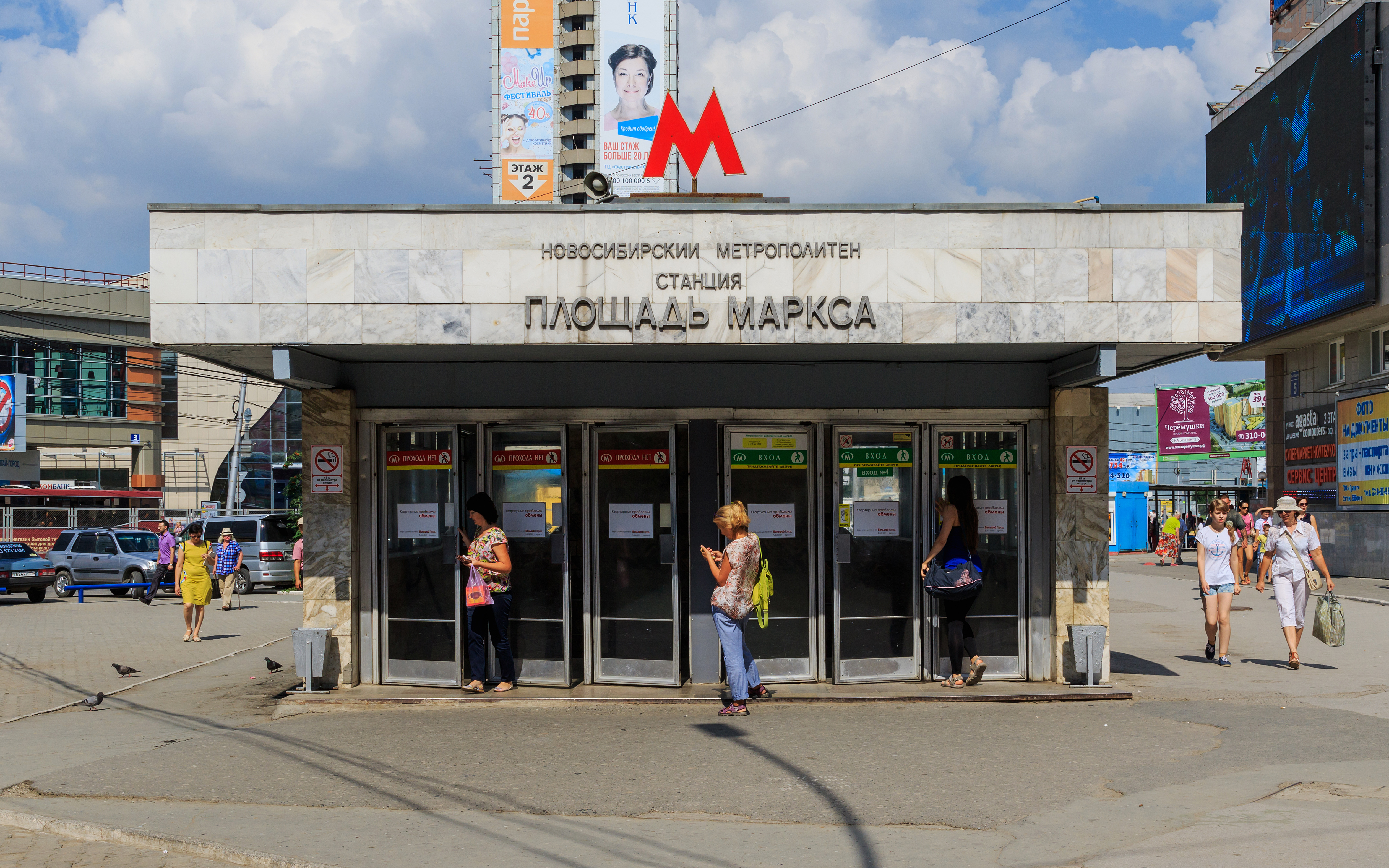 Entrance pavilion of Ploschad Marksa metro station. Novosibirsk, Russia